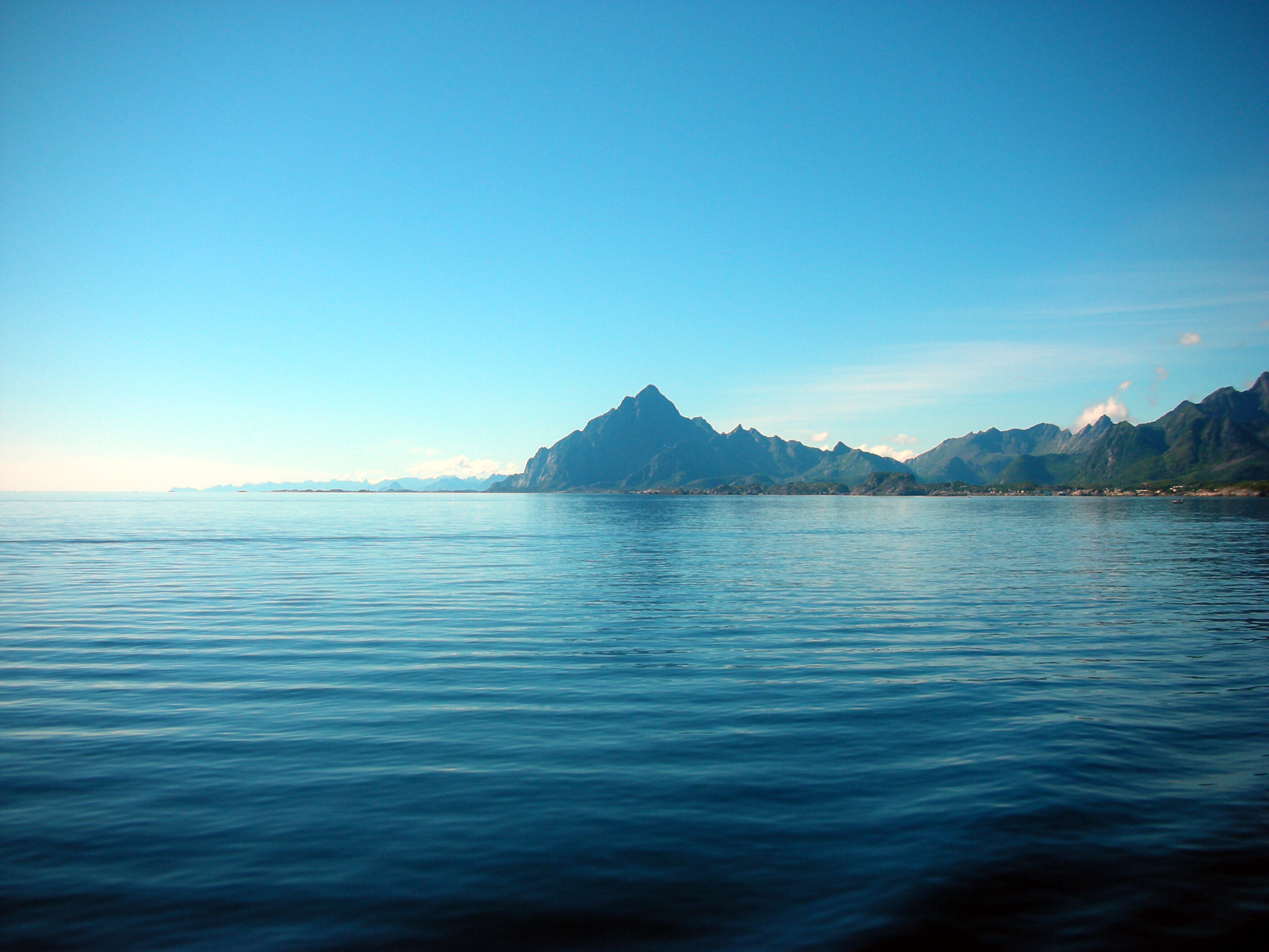 Vågakallen the peak in Lofoten, Norway. Seen from a ship in east (in Vestfjorden).